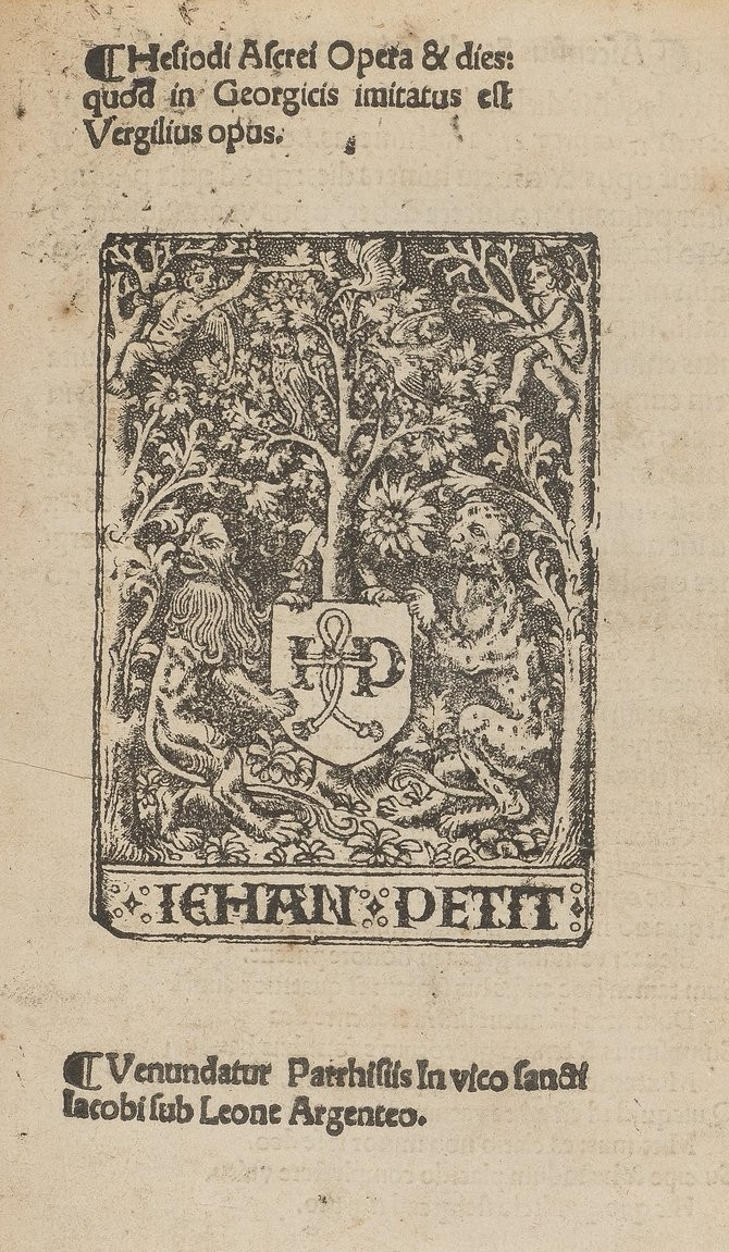 Hesiod, Works and Days, Latin translation, 1509 edition tp